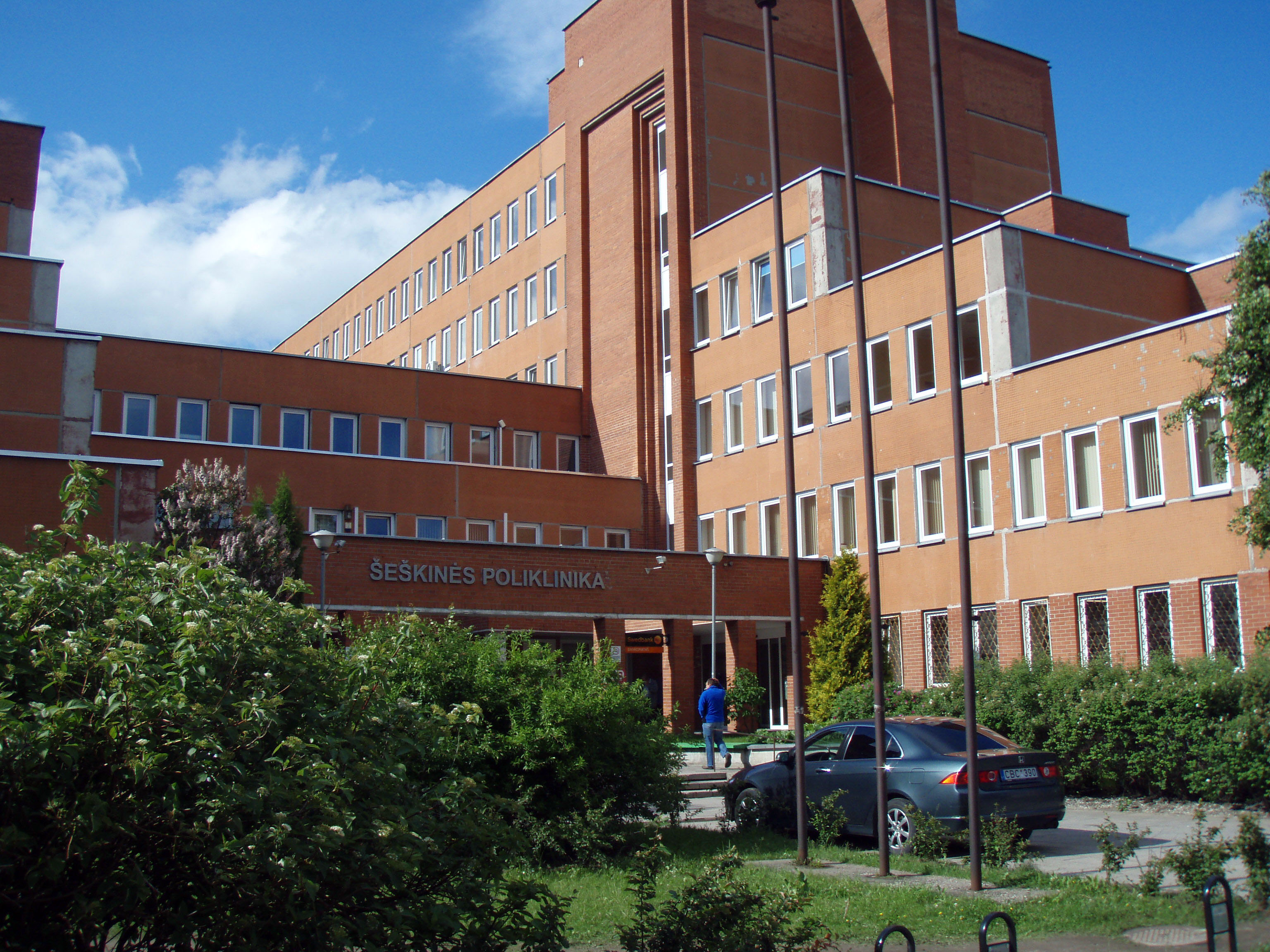 Šeškinės policlinic, Vilnius, Lithuania